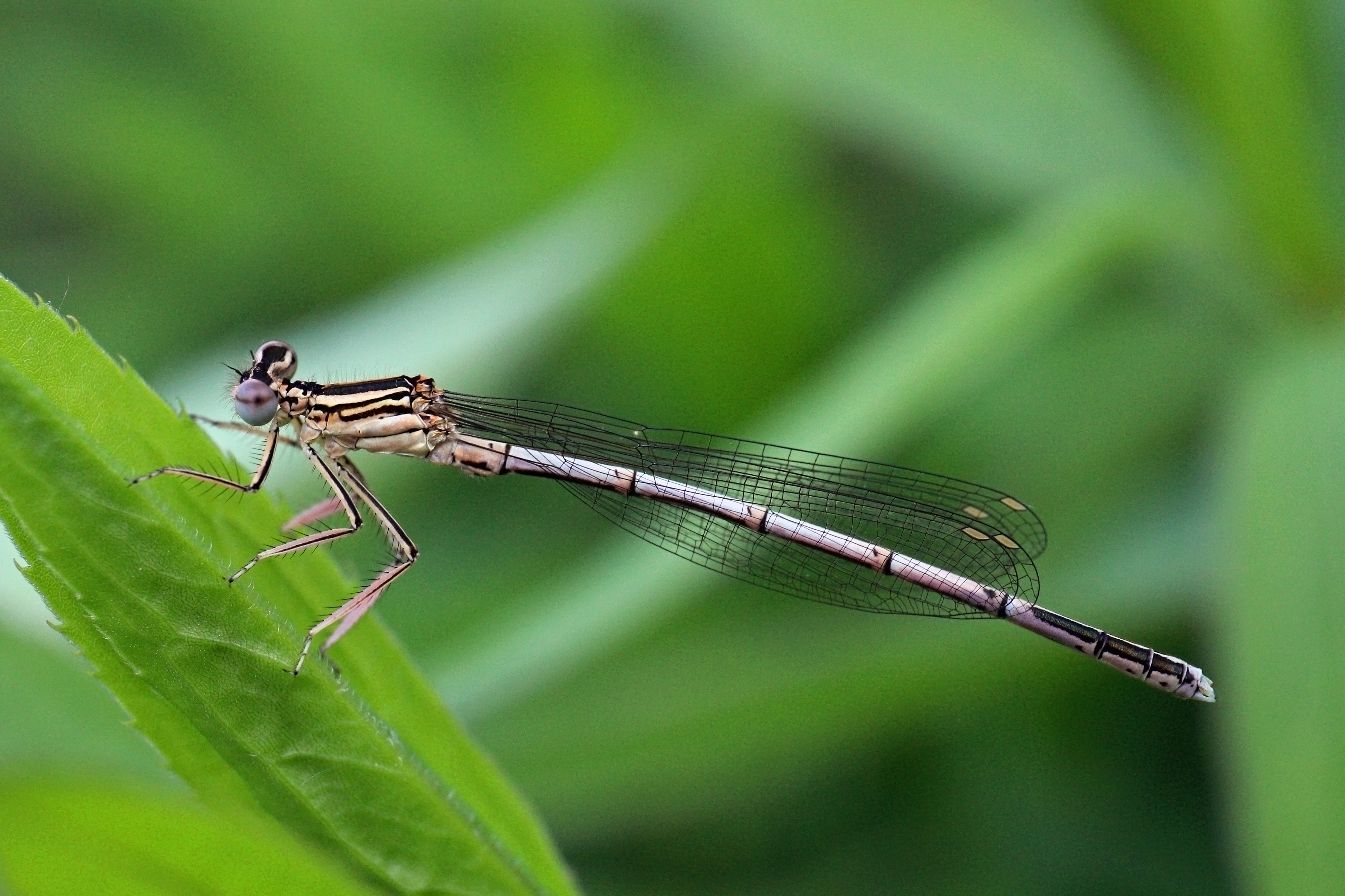 White-legged damselfly (Platycnemis pennipes) immature male, Warsaw, Poland